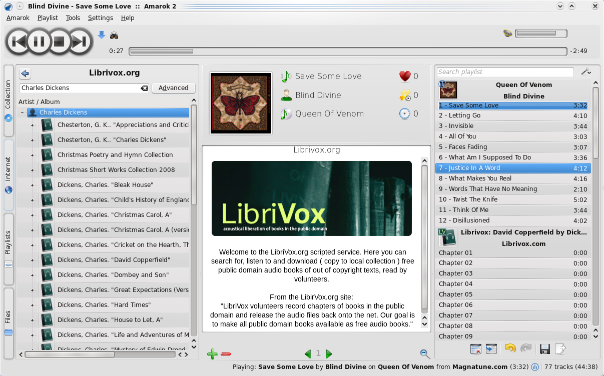 Screenshot of Amarok in version 2.0.2, running under a linux distrubution